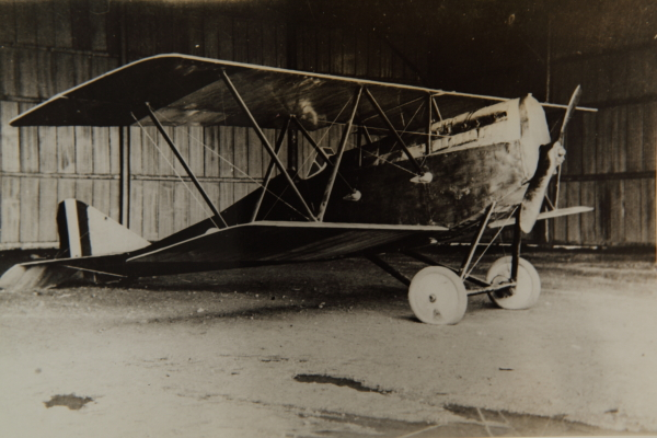 Ansaldo S.V.A.9